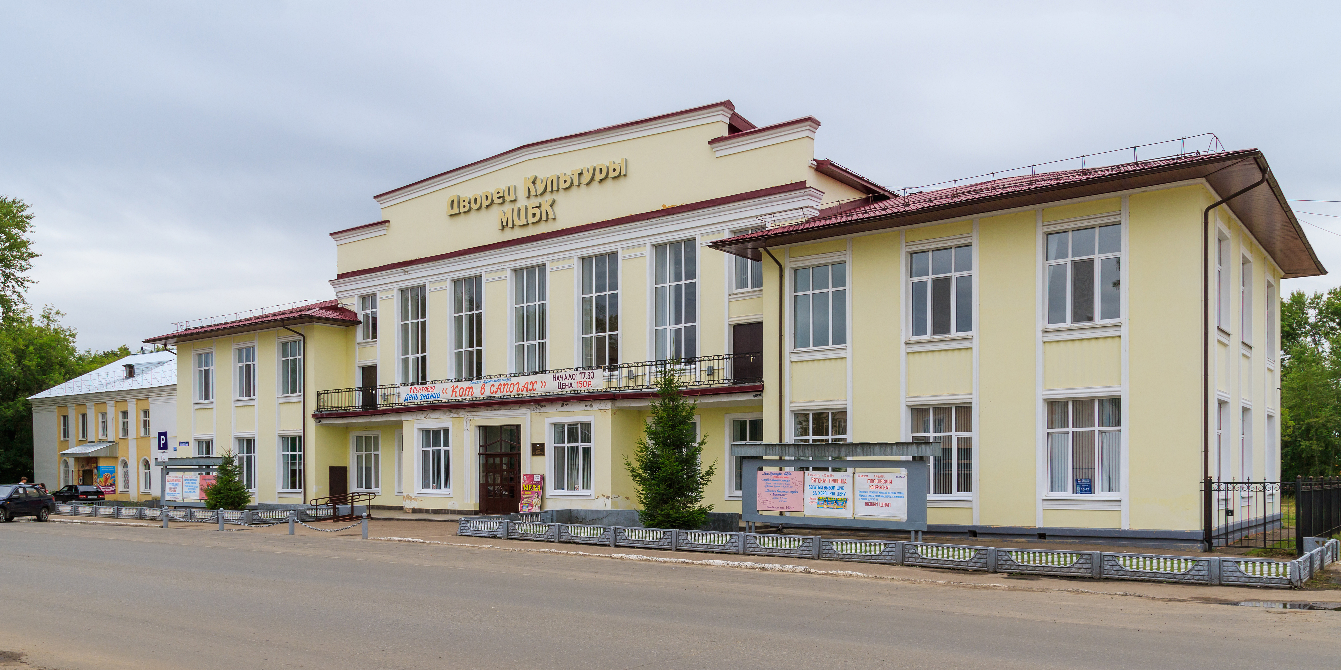 Marbum Culture Palace in Volzhsk, Mari El, Russia